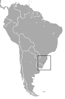 Guahiba Gracile Opossum (Cryptonanus guahybae) range IUCN: Cryptonanus guahybae (Tate, 1931) (old web site) (Data Deficient)